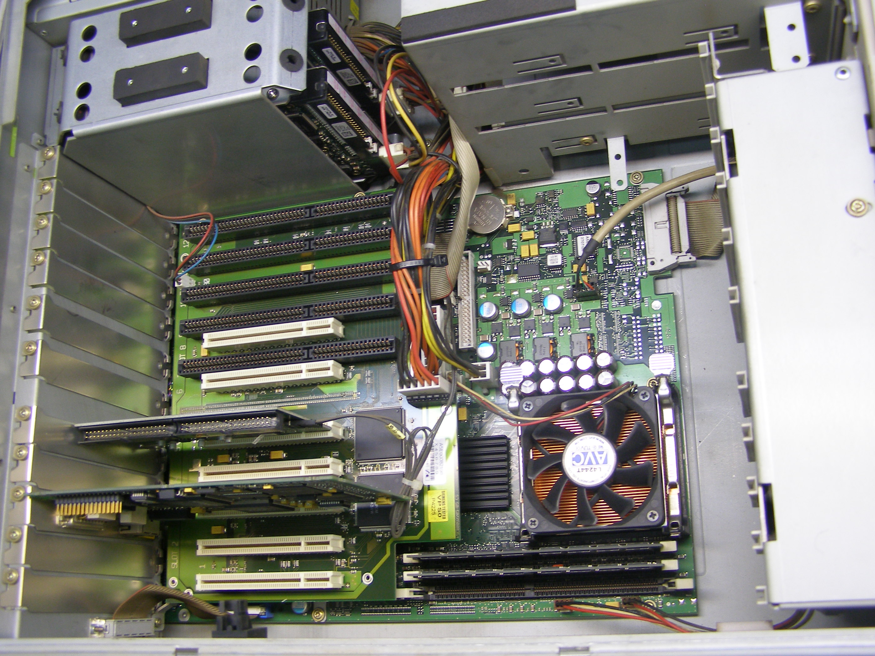 Industrial PC Siemens SIMATIC RACK PC 840 V2 inside.